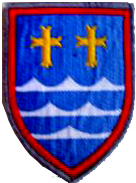 coat of arms of the Bundeswehr (Armed Forces of the Federal Republic of Germany). → Remarks on naming and categorization scheme